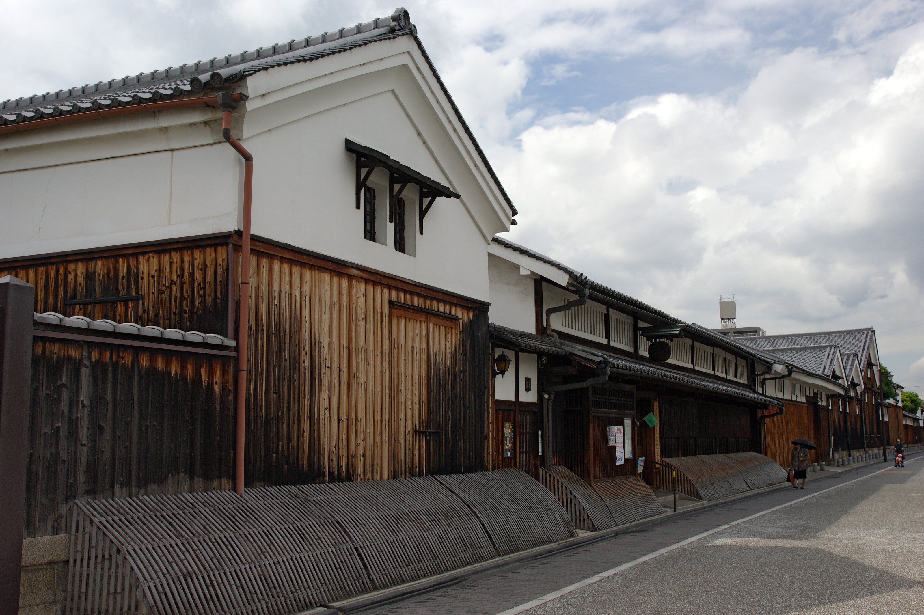 Gekkeikan Okura Sake Museum in Fushimi, Kyoto, Kyoto prefecture, Japan